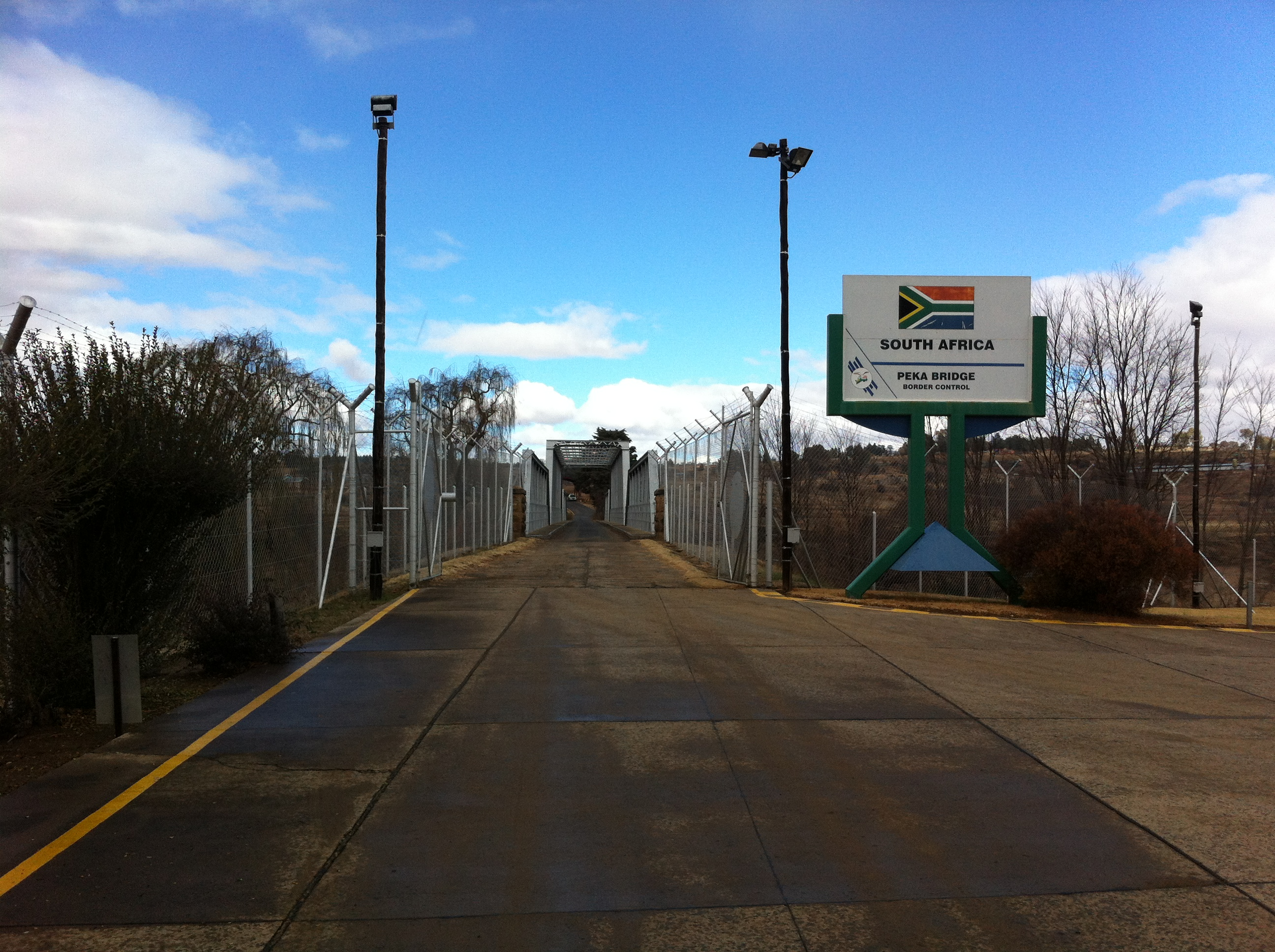 Senekal, South Africa